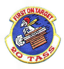 Emblem of the 20th Tactical Air Control Squadron